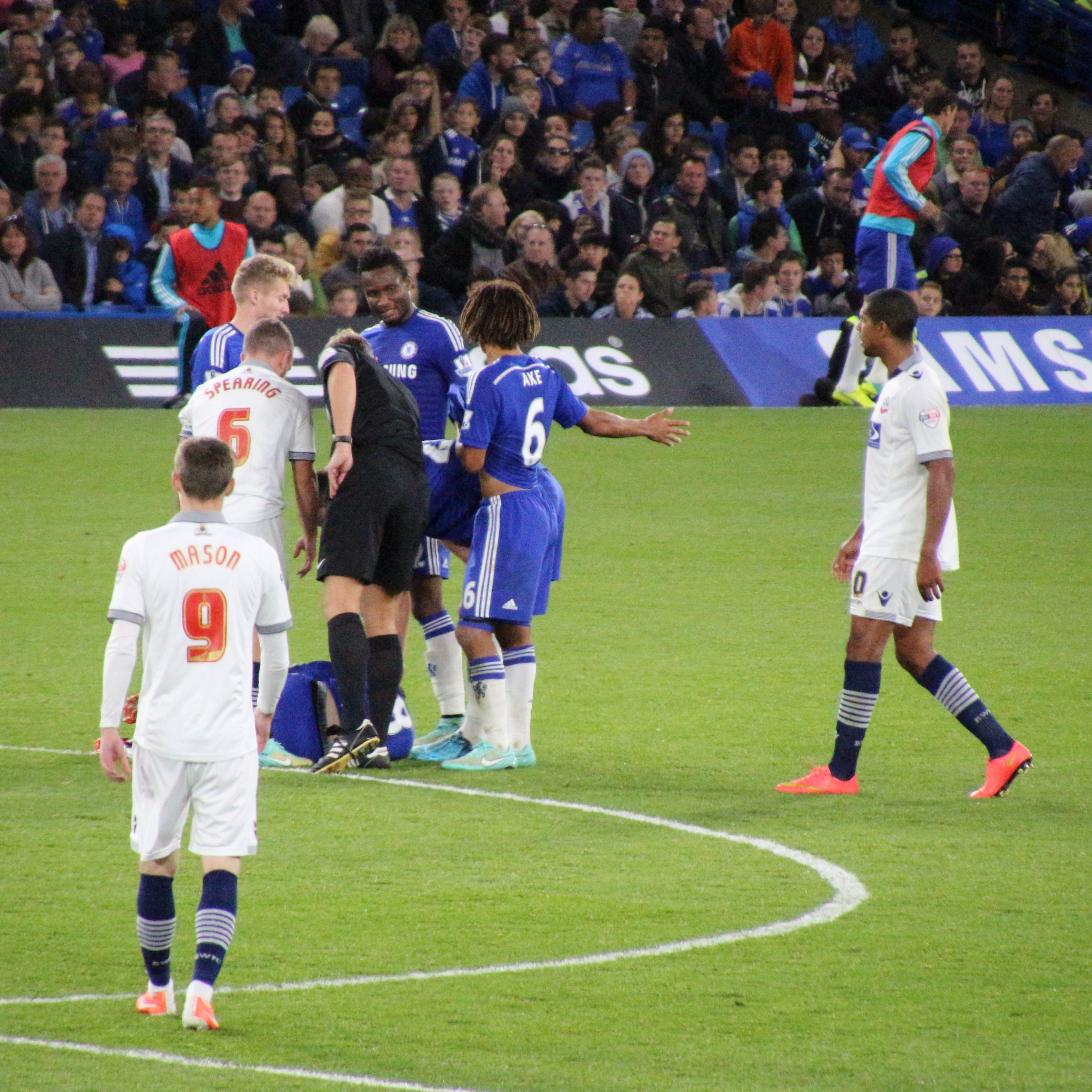 Chelsea 2 Bolton Wanderers 1 Chelsea progress to the next round of the Capital One cup